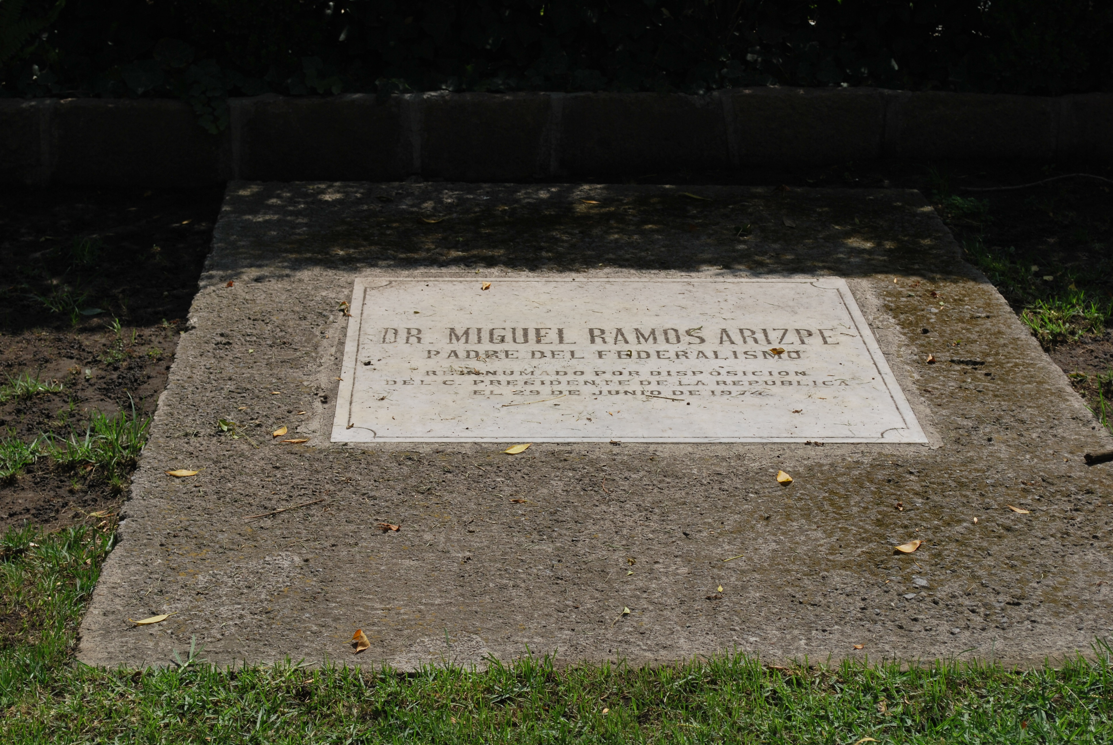 Tomb of Dr Miguel Ramos Arizpe in the Panteon Civil de Dolores cemetery in Mexico City